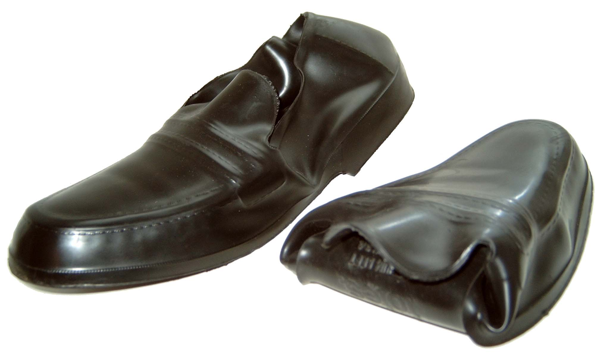 I took a photograph of my pair of galoshs/rubbers, made from rubber. I habe meine Gummi-Galoschen photographiert.